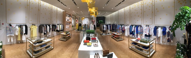 inside view ESCADA store.